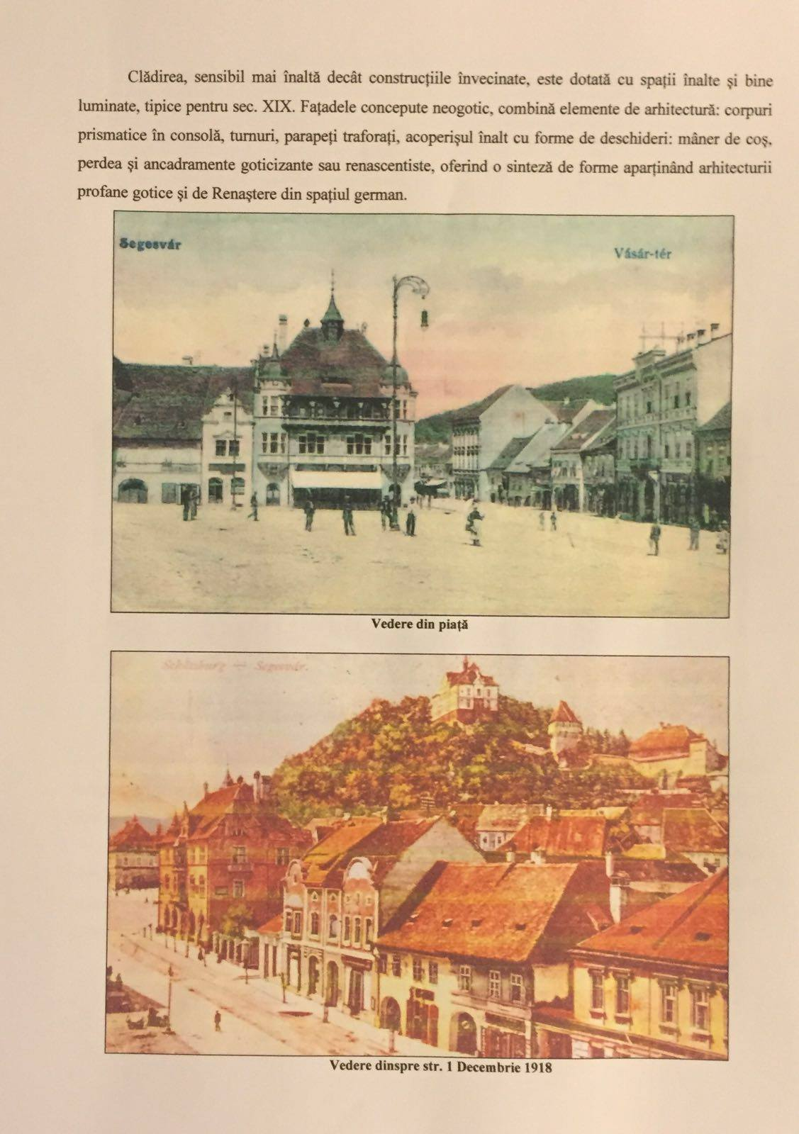 View from Strada 1 decembrie 1918 and from the square